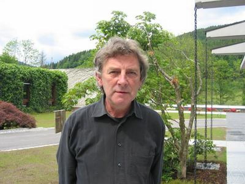 Marius van der Put, Oberwolfach 2007